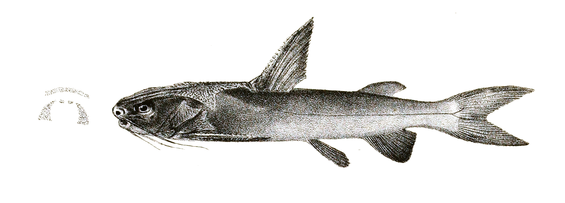 Sciades sona syn. Arius sonaThe species names / identity need verification. The original plates showed the fishes facing right and have been flipped here. Arius sona